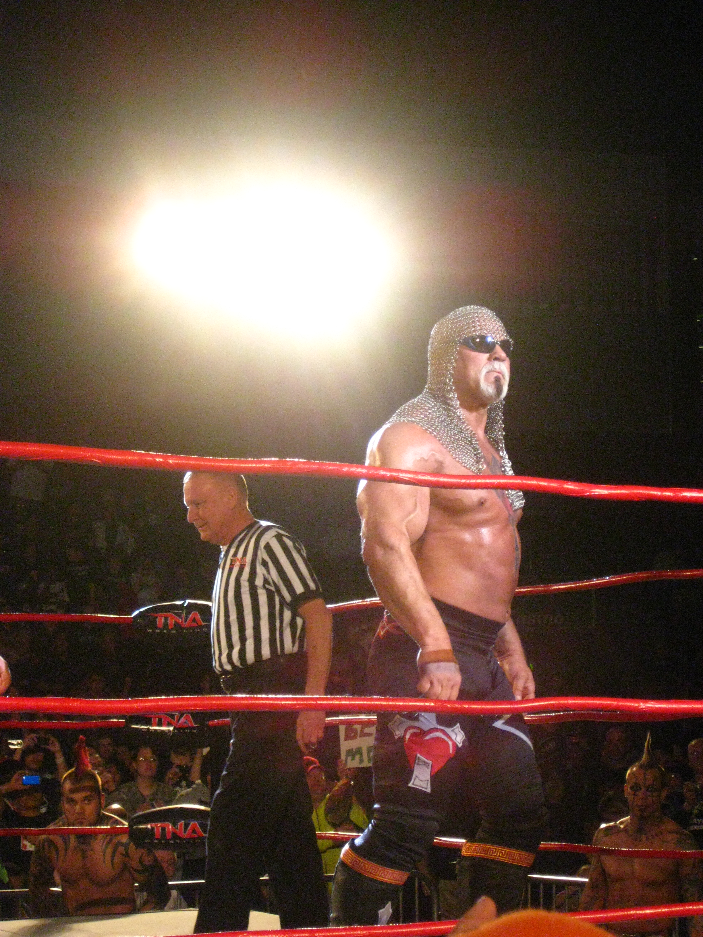 A TNA Live! Even at the ShoWare Center in Kent, WA. No PRO cameras were allowed so I had to put my Canon PowerShot SD1100 IS to work!